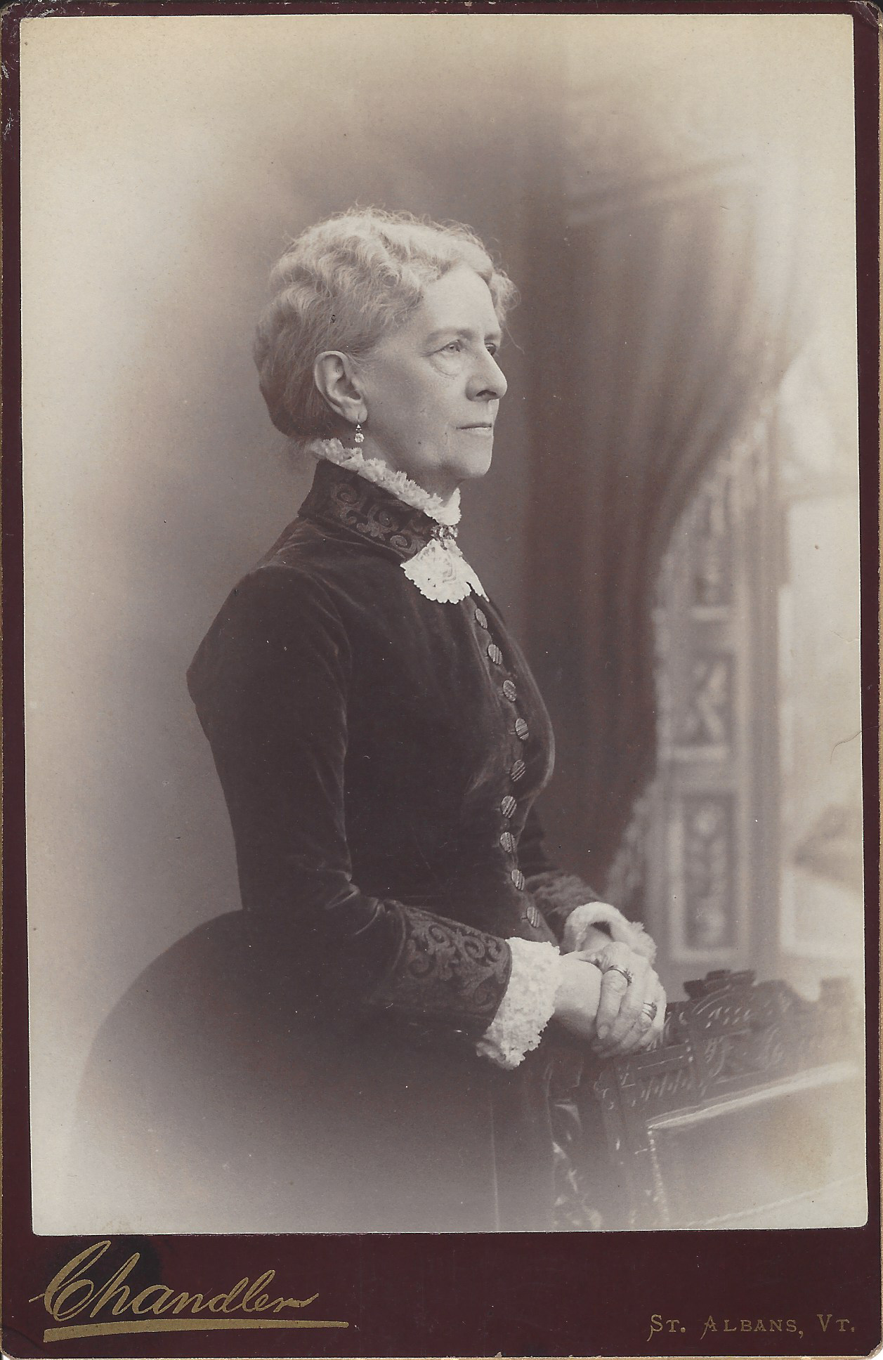 Ann Eliza Brainerd Smith